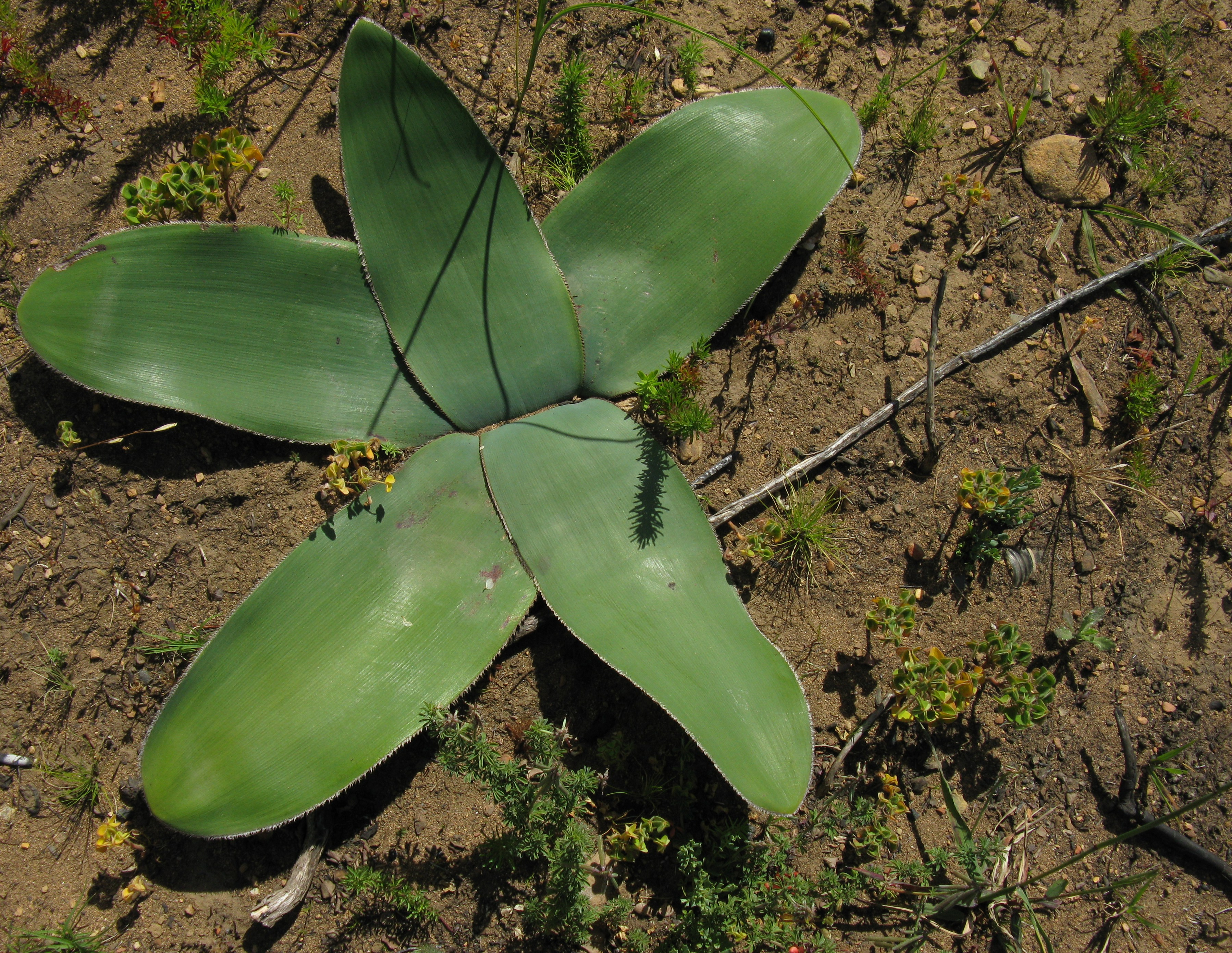 Crossyne guttata, Amaryllidoideae. The plant is deciduous. For the first three to five years or so, the seedling grows narrow, fringed, semi-erect strap-shaped leaves, but then it begins to produce very broadly strap-shaped leaves, still fringed, that lie flat and smother competing plants. At first about four flat leaves appear in a season, but as the bulb grows it attains a considerable size, over a litre in volume, and in later years it might prodice 6-10 leaves in a season. A specimen may last decades in the wild if not disturbed. This photograph shows a fairly fairly young specimen, perhaps 5-7 years old. It flowers in late winter or early spring before the leaves appear.